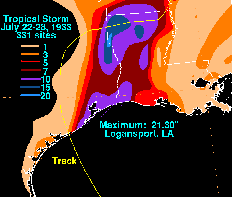 Rainfall produced by the Texas tropical storm during July 1933.